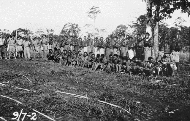 LUMI, NEW GUINEA, 1943-07-09. GROUP PORTRAIT OF MEMBERS OF M SPECIAL UNIT, SERVICES RECONNAISSANCE DEPARTMENT, ALLIED INTELLIGENCE BUREAU, WITH NATIVE GUERRILLA TROOPS AT LUMI, ABOUT 50 KILOMETRES SOUTH OF AITAPE. SHORTLY AFTERWARDS, THE GROUP SPLIT UP INTO TWO PARTIES CODENAMED "WHITING" AND "LOCUST". WHITING PARTY SET OUT FOR THE HOLLANDIA AREA, WHILE LOCUST PARTY CONTINUED TO OPERATE IN THE AREA SOUTH AND SOUTHEAST OF AITAPE. LEFT TO RIGHT (STANDING): SERGEANT (SGT) H.N. STAVERMAN, ROYAL NETHERLANDS NAVY, LEADER OF THE WHITING PARTY, BEHEADED BY THE JAPANESE IN AN AMBUSH, C. 1943-09; SGT LEN SIFFLEET, WIRELESS OPERATOR FOR WHITING PARTY, MURDERED BY THE JAPANESE, 1943-10-24; RAY AH SOONG (WHOSE REAL NAME WAS CHOW CHEN ON), A MEMBER OF LOCUST PARTY; PRIVATE PATIWAHL, AN AMBONESE; SGT LES BAILLIE, WIRELESS OPERATOR FOR LOCUST PARTY; LIEUTENANT (LT) GUY BLACK. THE NAMES OF THE NATIVE TROOPS ARE NOT KNOWN. THE MAN SQUATTING AT FAR RIGHT IS LT HARRY AIKEN. NOT INCLUDED ARE LT H. A. J. FRYER (THE PHOTOGRAPHER) AND PRIVATE REHARIN.